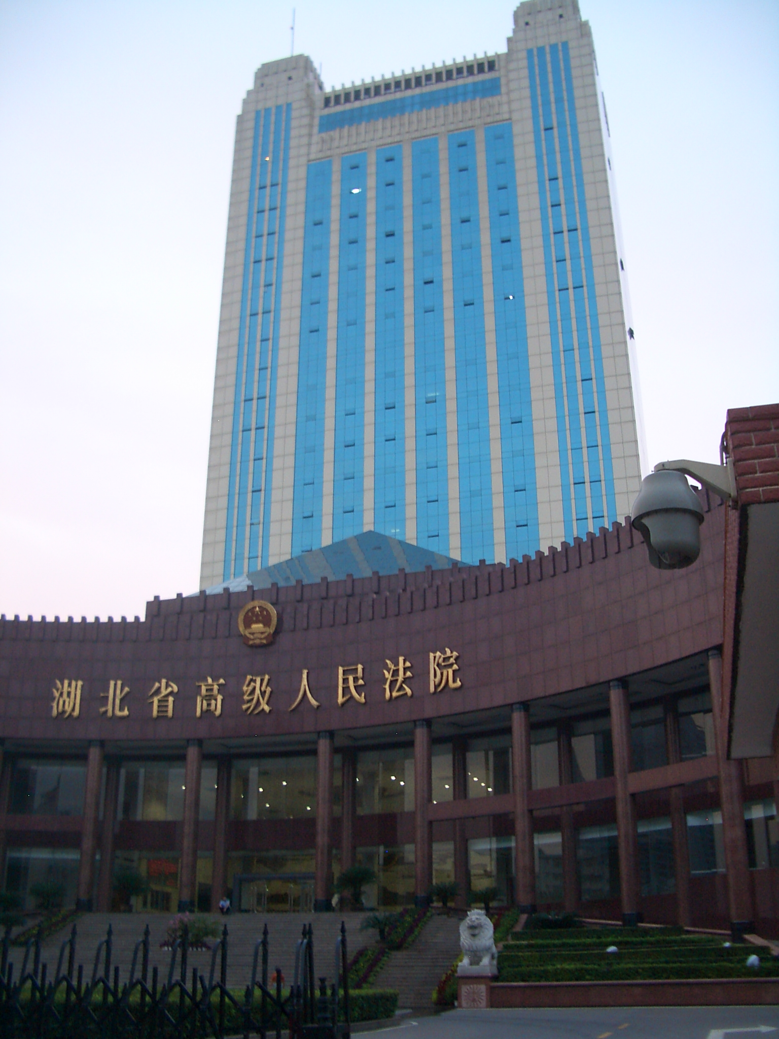 The Supreme Court of Hubei Province. The building is in Gongzheng Lu, a couple km north of central Wuchang